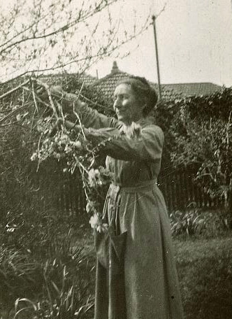 Photograph of Ina Higgins in garden at "Killenna," Malvern, Victoria in 1919